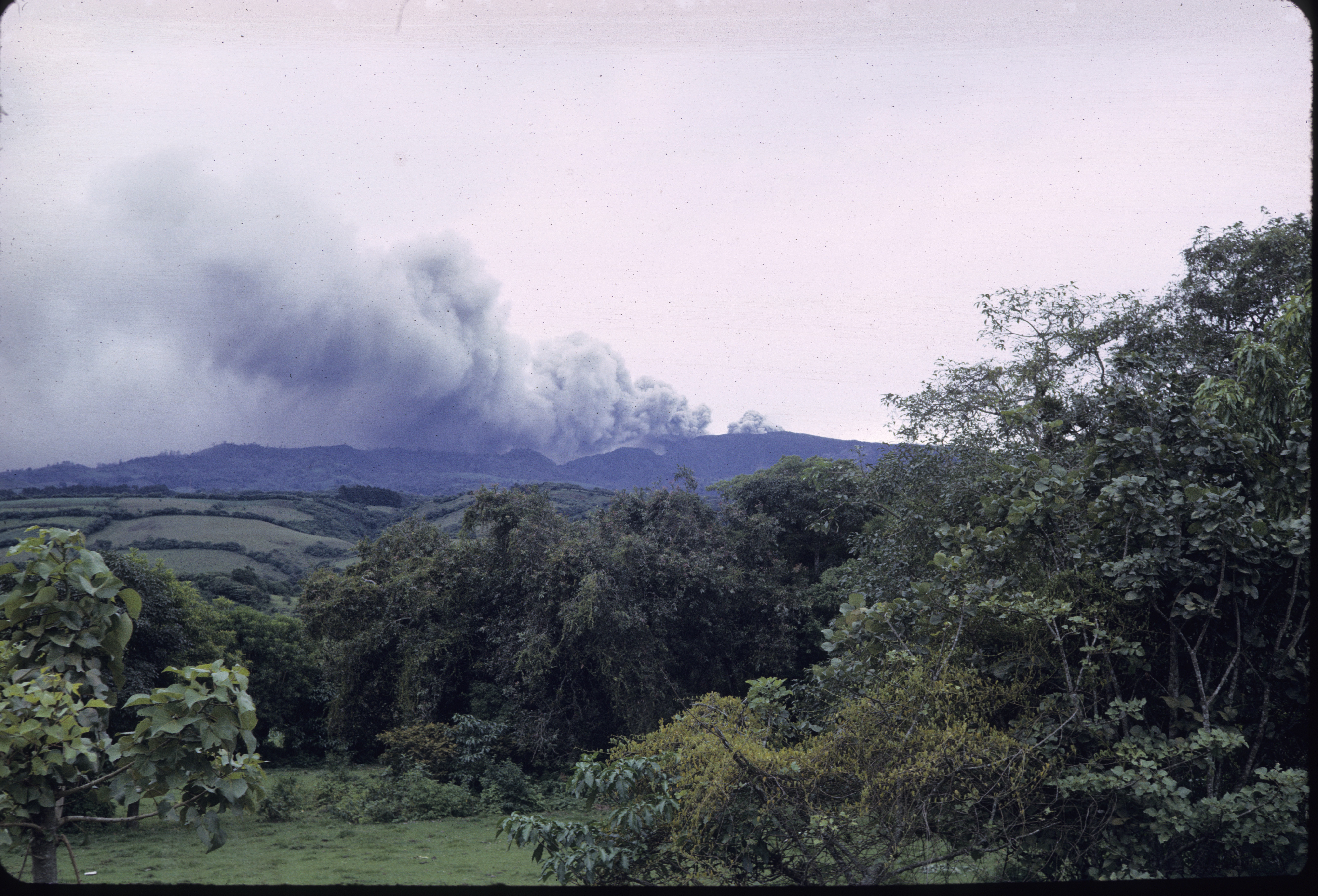 Irazu Volcano, eruption of 1963, seen from a few miles away. Ash cloud blowing to left from center of image.